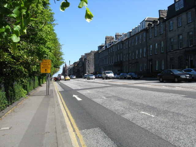 Queen Street, Edinburgh Queen Street Gardens are on the left.